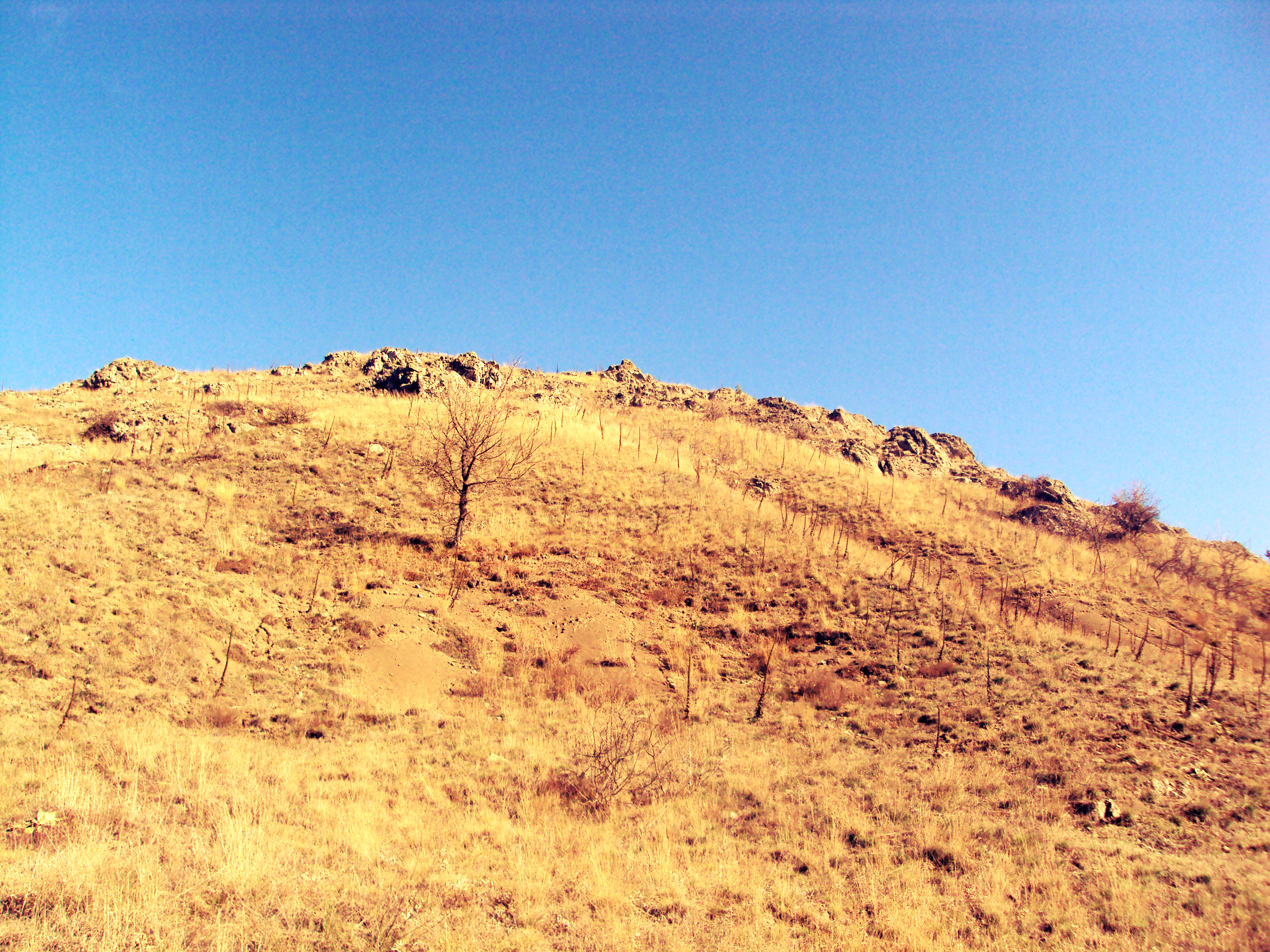 Solr shrine Garlo BG